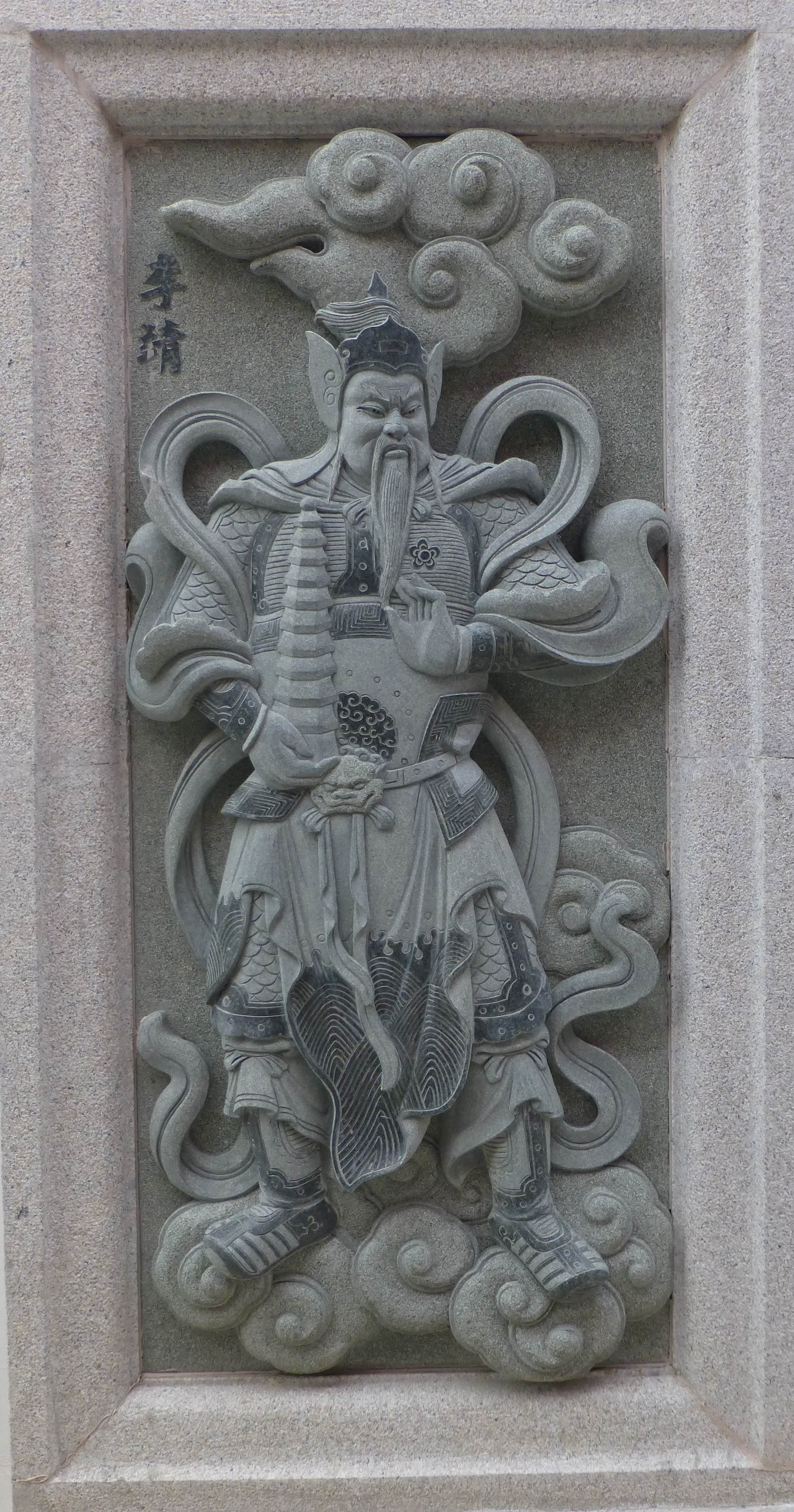 005 Li Jing (deity), Investiture of the Gods at Ping Sien Si, Pasir Panjang, Perak, Malaysia Photograph from the Ping Sien Si Temple in Perak, Malaysia taken by Anandajoti.